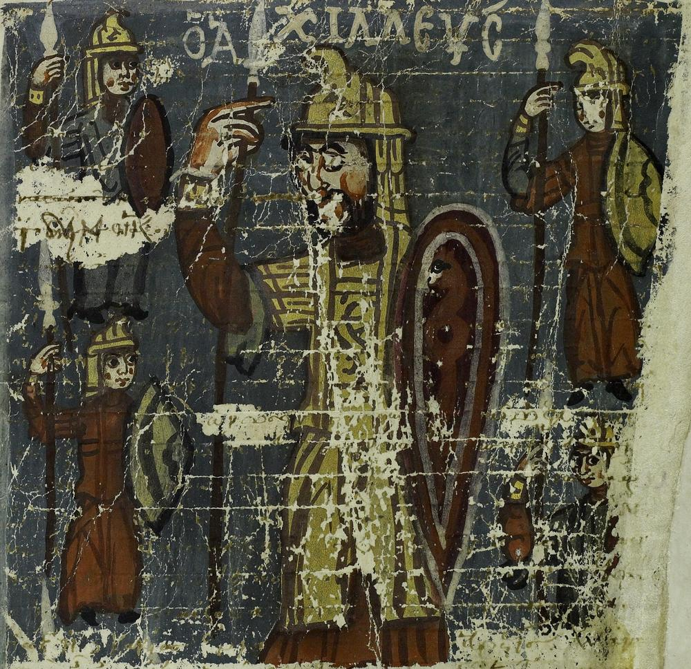 Manuscript BNM Mss.Gr.Z.454 Iliad (Venetus A) Folio 004r Dating 900-1000 From Greece Holding Institution Biblioteca Nazionale Marcianus